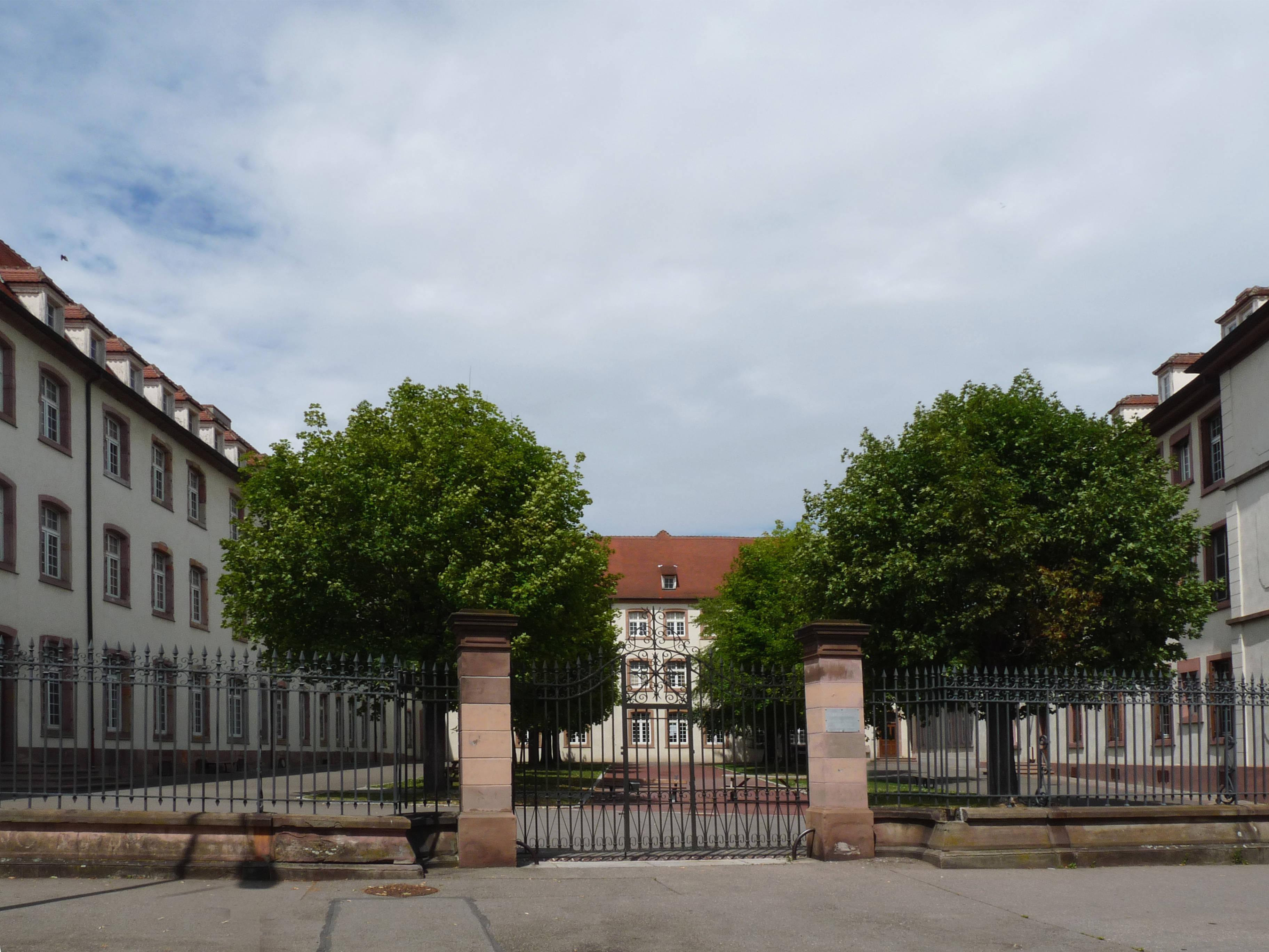 High School Bartholdi in Colmar (Haut-Rhin, France). .